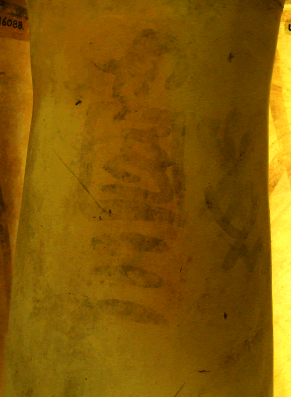 Vessel found at Tarkhan (tomb 1549) with predynastic king's name (Petrie Museum UC 16947)